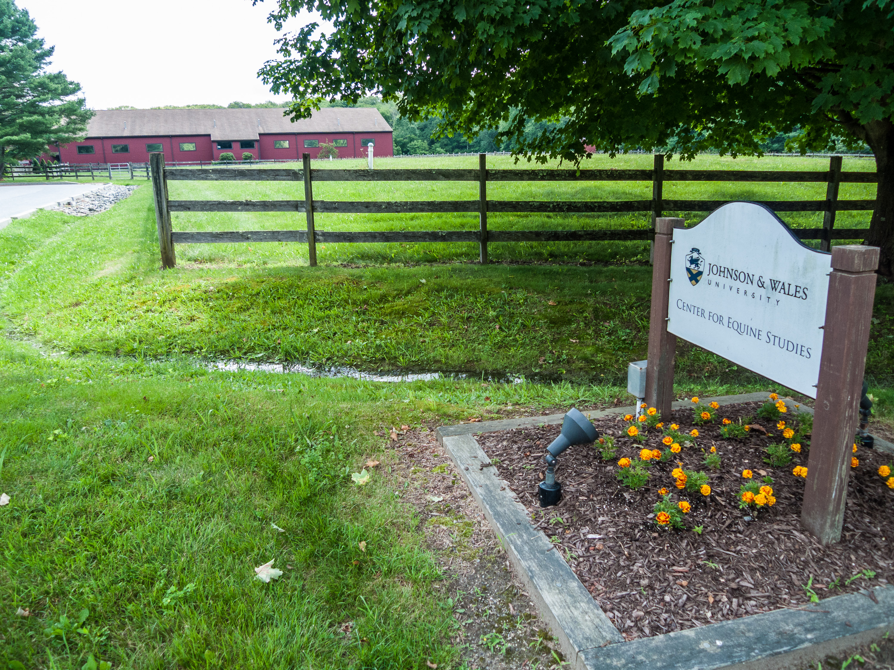 Johnson & Wales Center for Equine Studies in Rehoboth, Massachusetts.